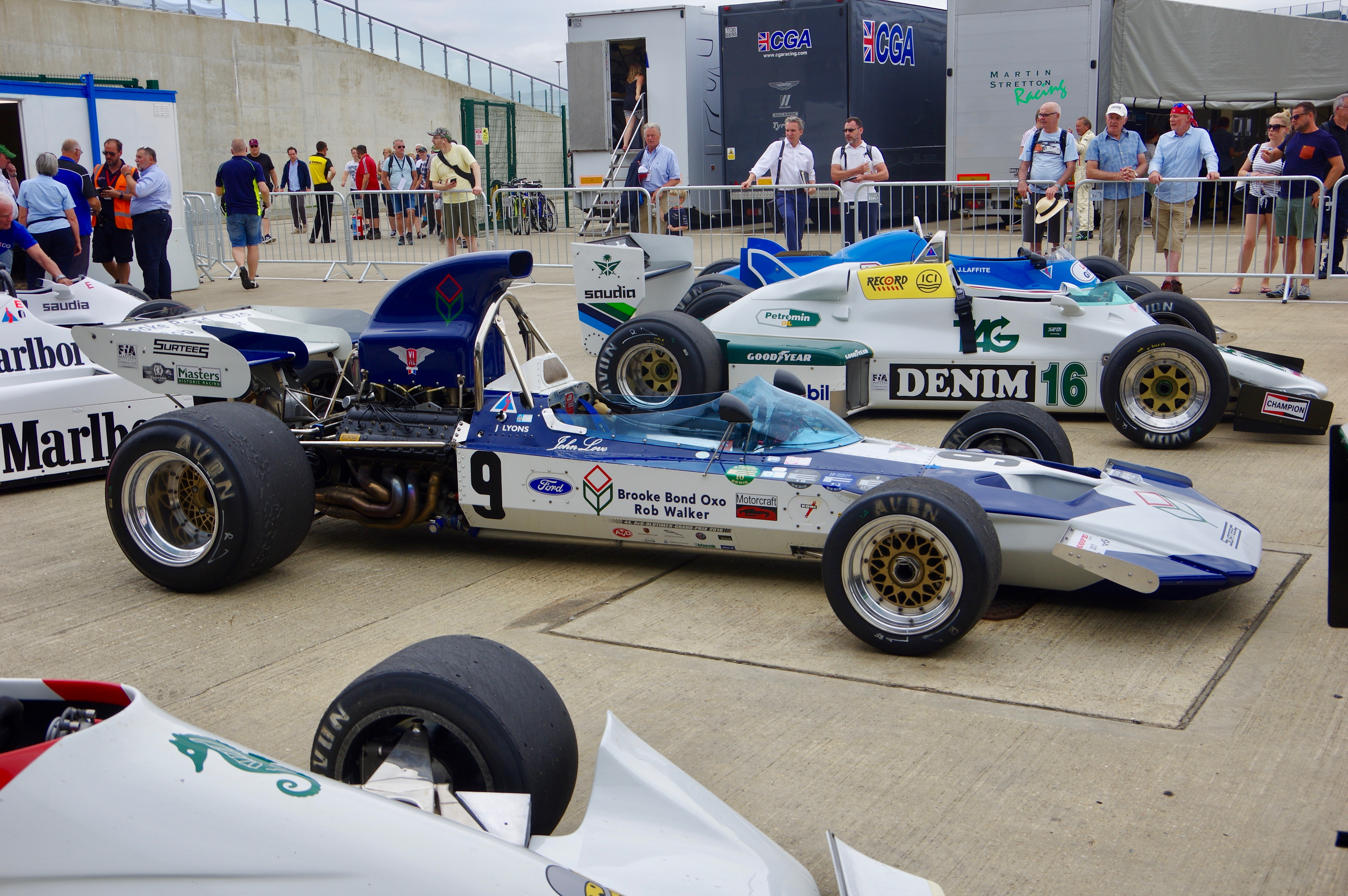 John Love 1971 Surtees TS9 2019 Silverstone Classic.